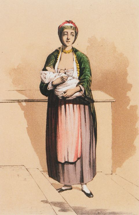 Jewish Women in Thessaloniki